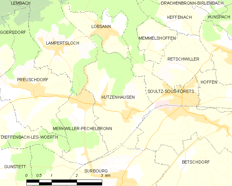 Map of French municipality